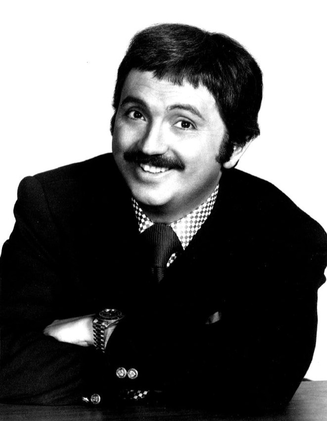 Photo of Marty Brill as Bernie Davis, the agent of character Dick Preston (Dick Van Dyke) from the television program The New Dick Van Dyke Show.